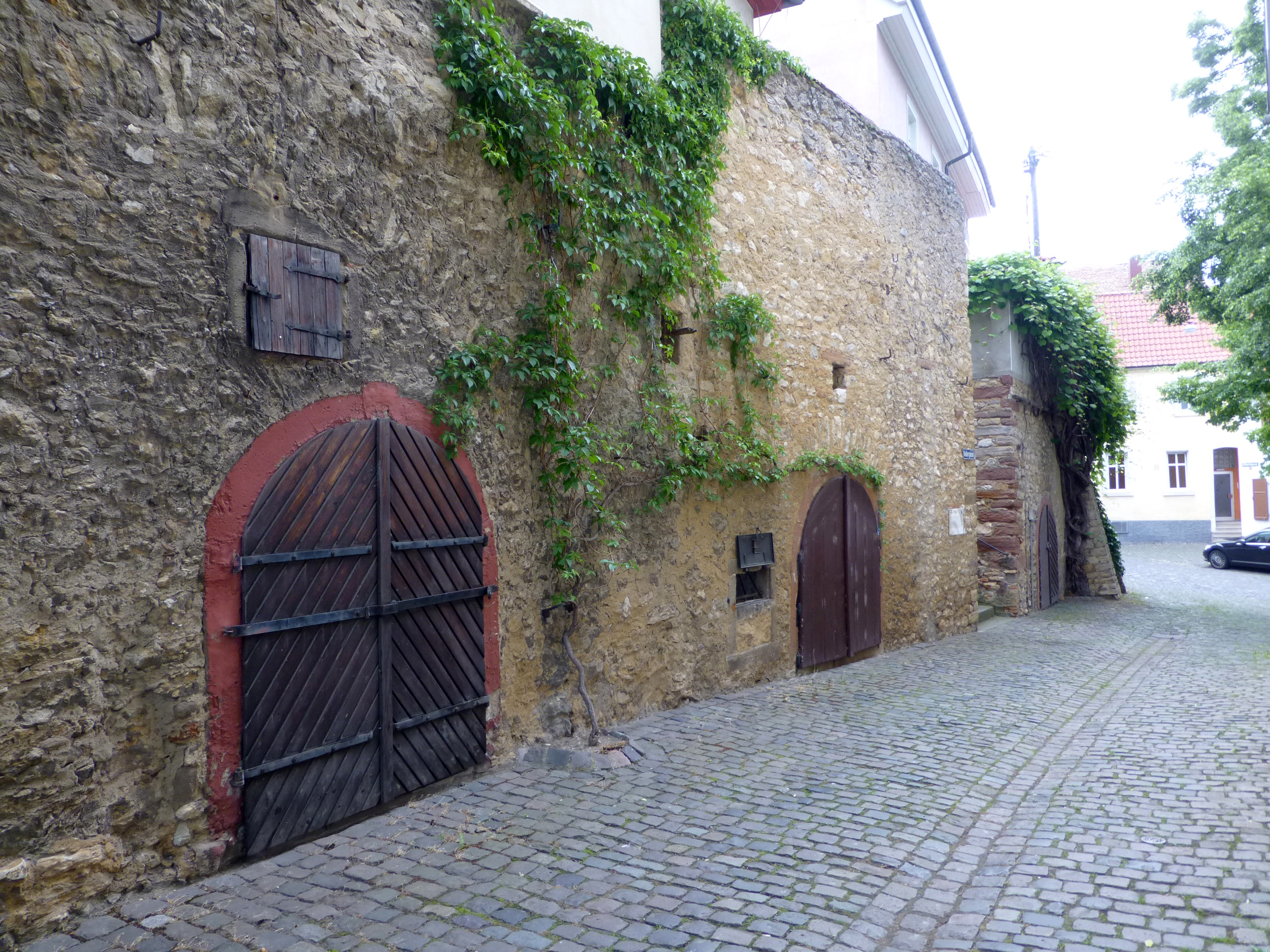 3 of the 12 winecellars within the southern wall of Markt, Westhofen, Rhineland-Palatinate.